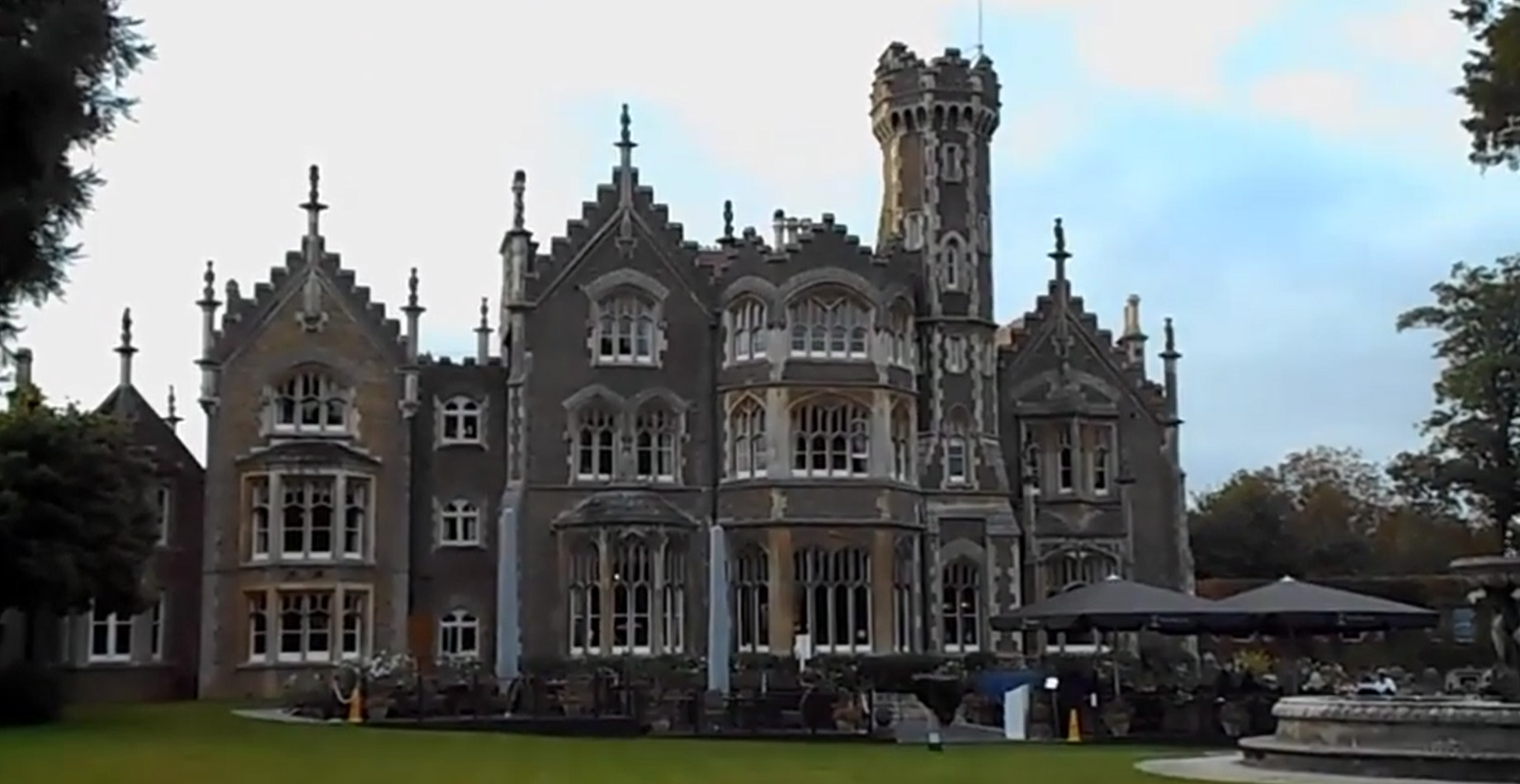 Oakley Court Windsor